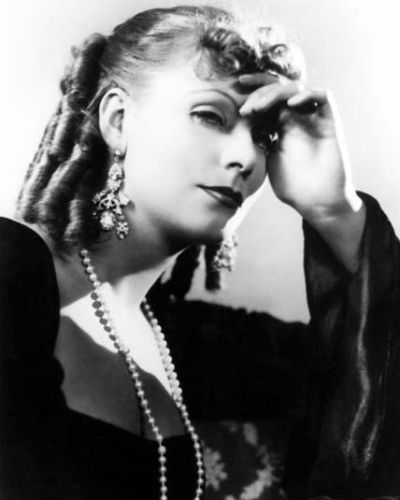 Greta Garbo in American Pre-Code film Romance (1930). See also film still. No copyright notice.